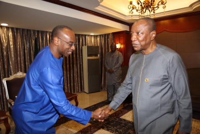 former SRSG for Guinea-Bissau, Modibo Ibrahim Toure just concluding a meeting with the ECOWAS Mediator for Guinea-Bissau and President of the Republic of Guinea, H.E. Prof Alpha Conde in late 2016